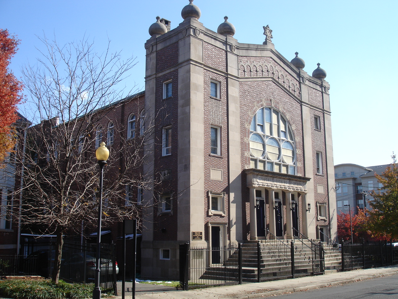 I took this photo of the Poile Zedek Synagogue myself on November 1, 2011